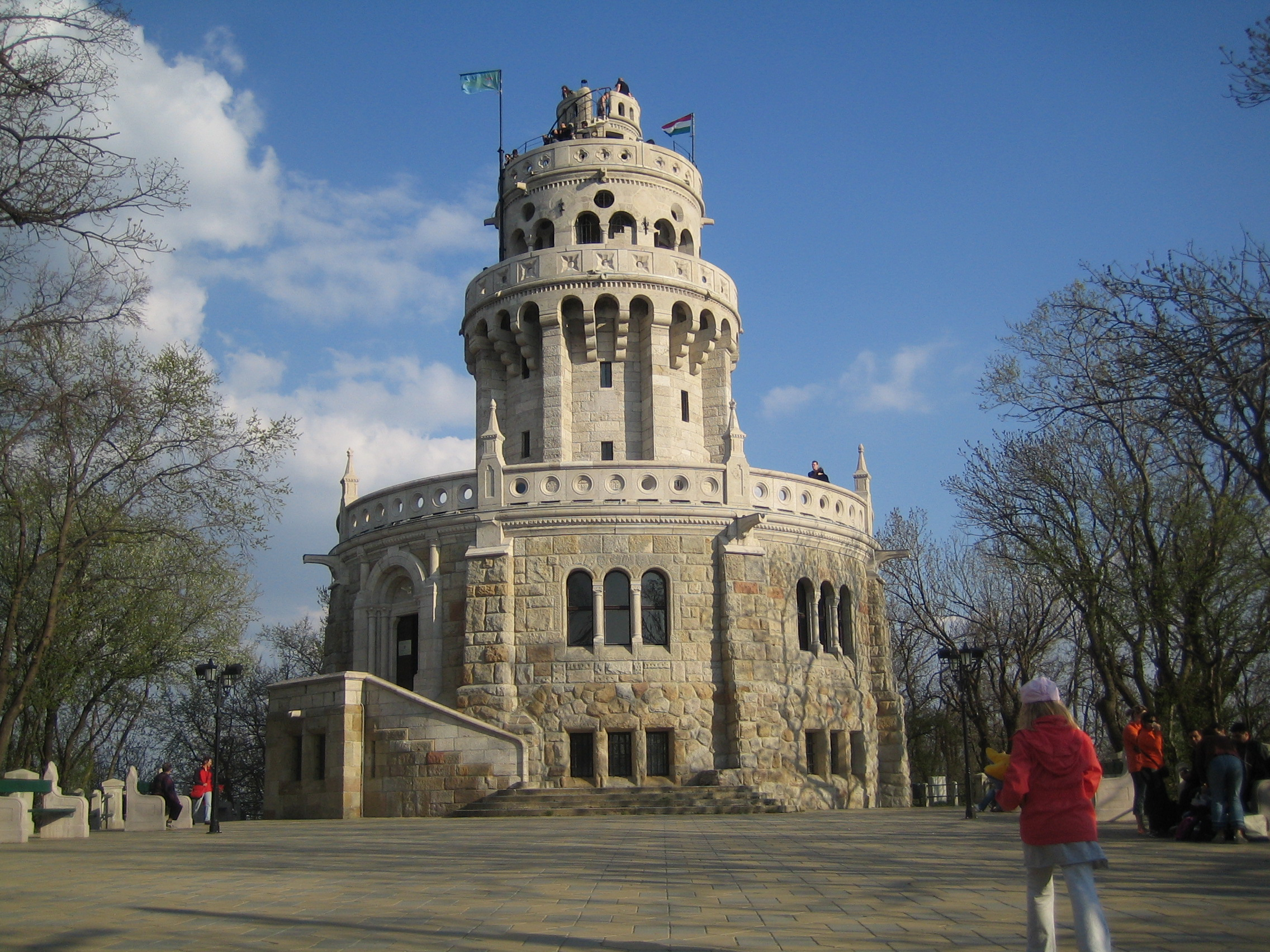 Tower on Janoshegy Hill, Budapest, Hungary